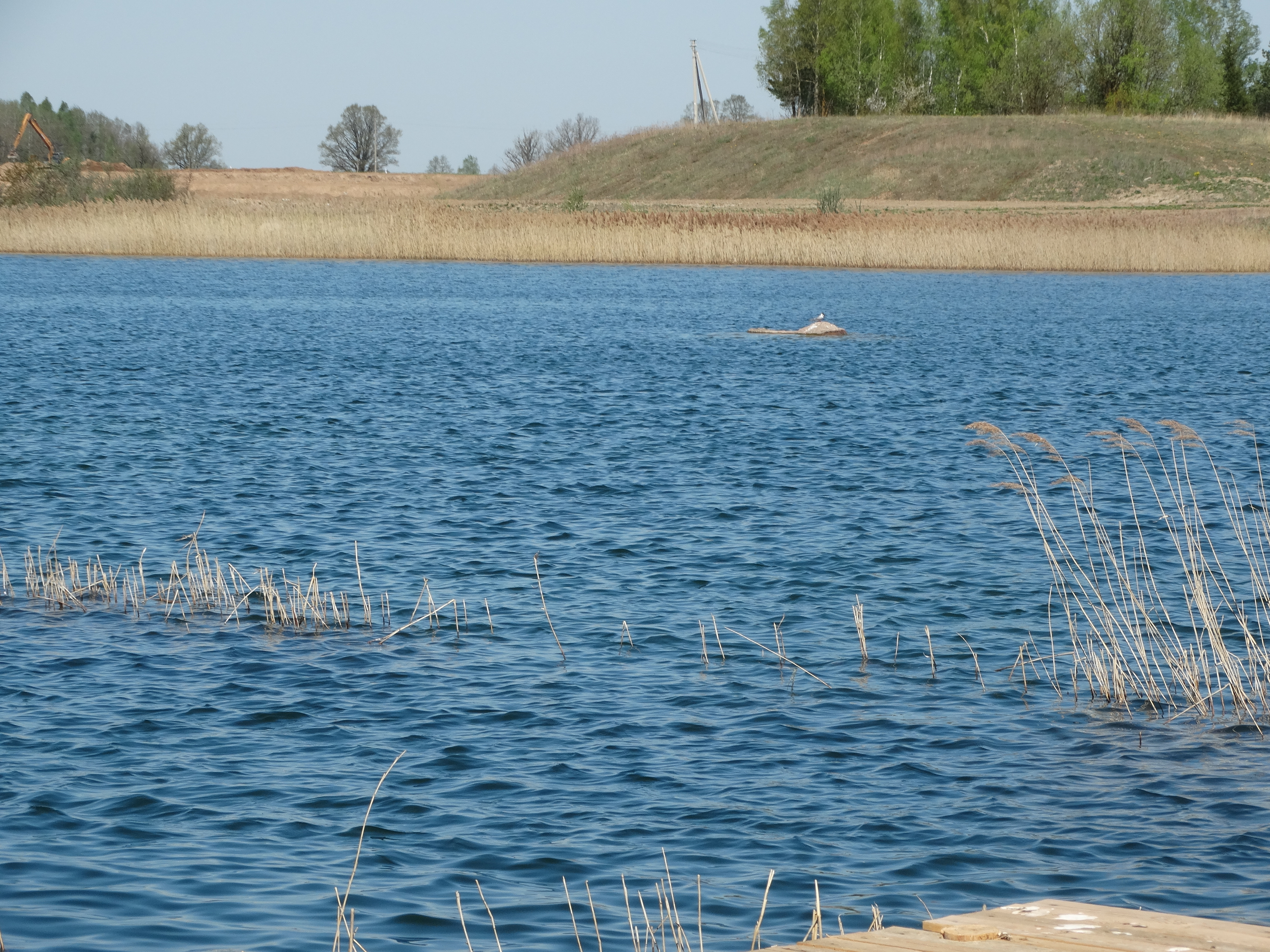 Pond stone, Verduliai (Radviliškis), Lithuania